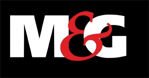 Mail & Guardian logo.